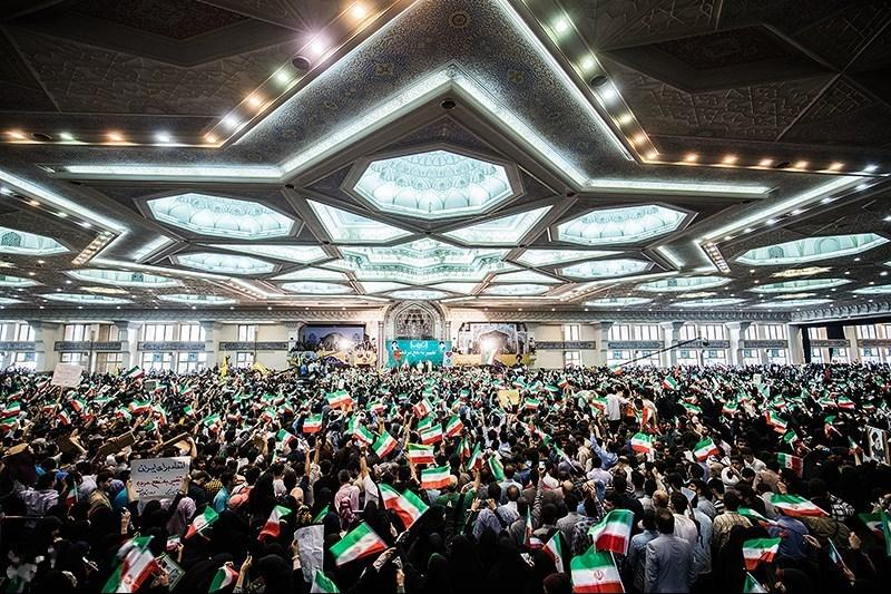 Presidential Candidate Raisi Addresses Mass Gathering of His Supporters in Tehran - TEHRAN (Tasnim) – Presidential candidate Seyed Ebrahim Raisi attended a large gathering of his supporters in Tehran ahead of the country's 12th presidential election. Mohammad Baqer Qalibaf, who dropped out of the race on Monday, was also present at the event to back Raisi.